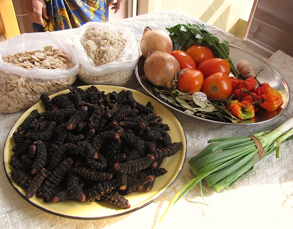 Ingredients for the very popular and nutritious African recipe: Mbika na mbinzo'. 'Mbika (pumpkin or squash seed flour porridge), (grain de courges moulu) combined with 'Mbinzo' (caterpillars) is a very popular central Africa recipe that includes familiar ingredients such as fresh onions, tomatoes, capsicum, green onions, garlic and parsley plus a flour made from dried, ground edible seeds from in-season Cucurbitaceae (watermelons, pumpkins.gourds, squashes). Different varieties of edible caterpillars can be used, depending on the season. In this case, a plate of dried Imbrasia truncata from the Kinshasa market. Congo.